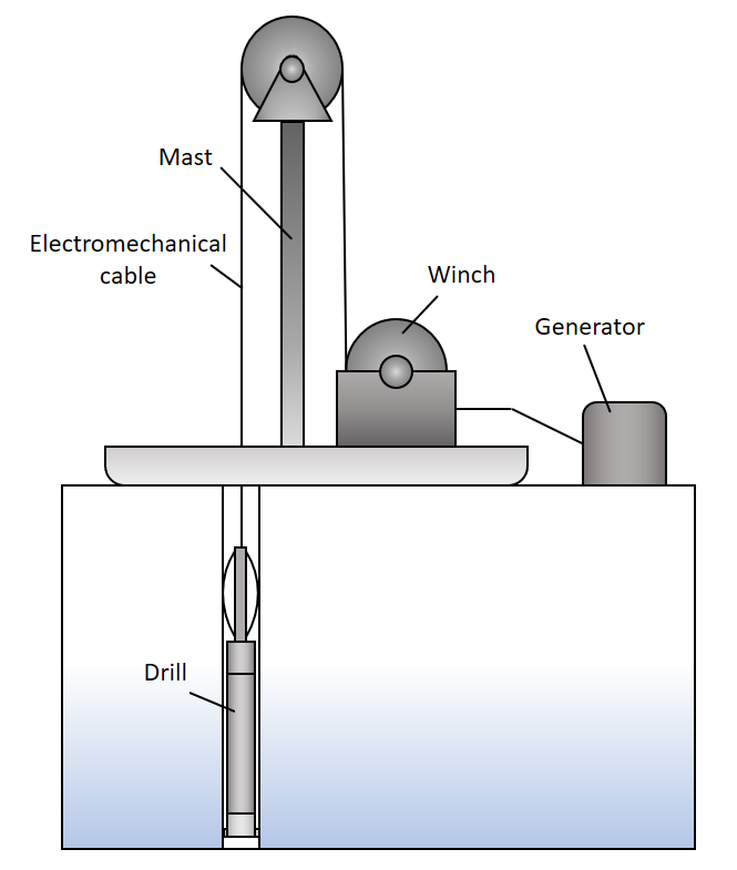 Schematic of cable-suspended ice core drilling system. Redrawn from Talalay, Pavel G. (2016). Mechanical Ice Drilling Technology. Beijing: Springer. ISBN 978-7-116-09172-6. p. 110.